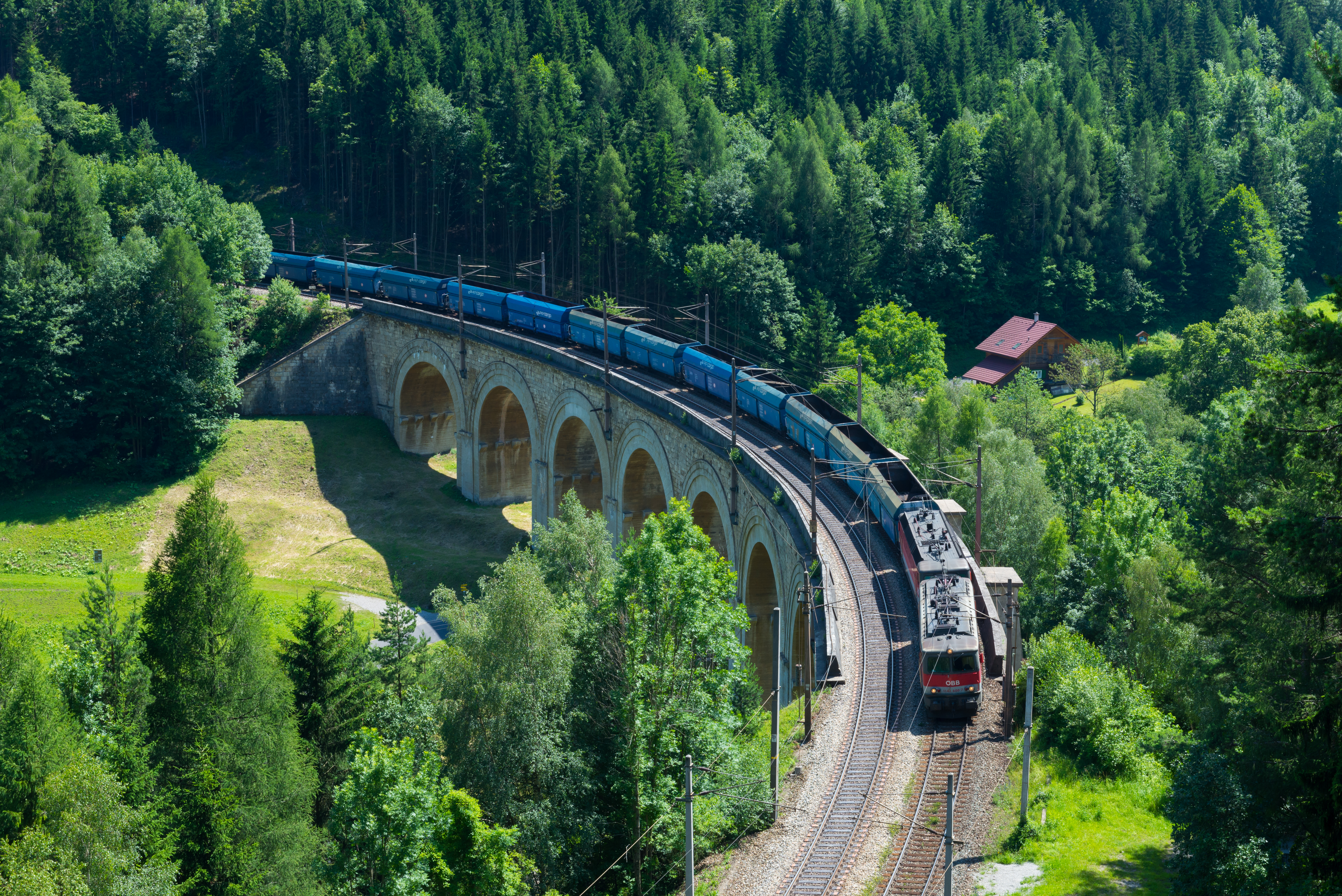 A freight train with empty polish bulk carriage wagons, towed by 1142-608-7 and another engine on the Fleischmann-Viadukt.